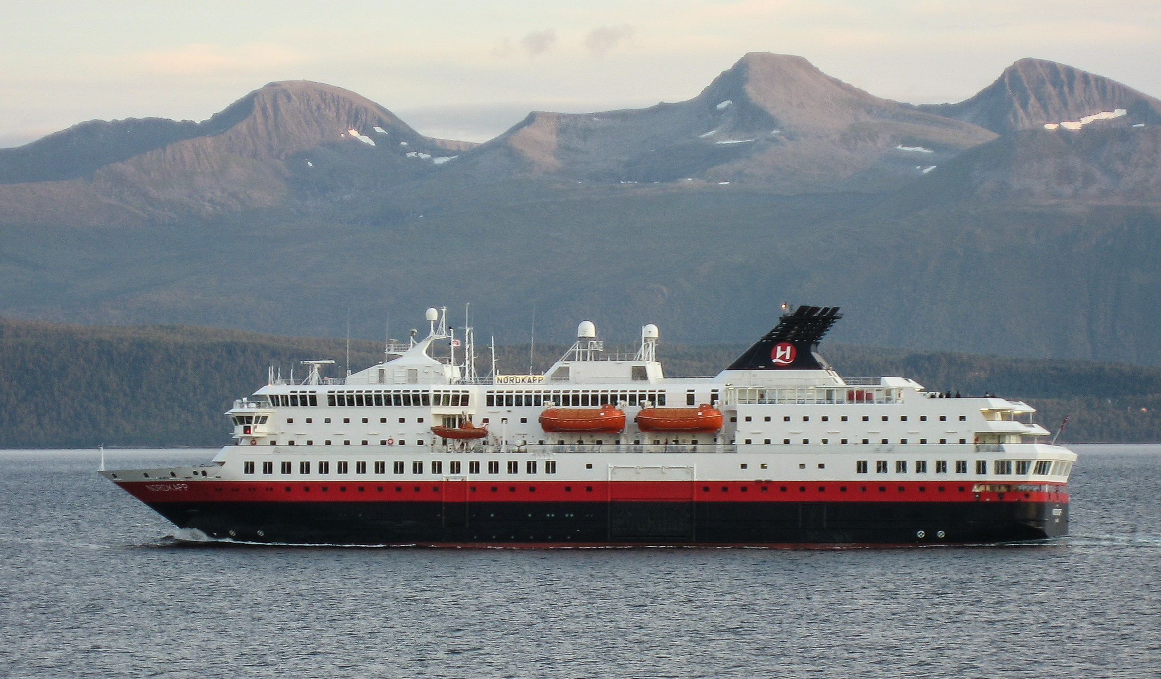 Norwegian coastal express (Hurtigruten) MS Nordkapp on its way to Molde